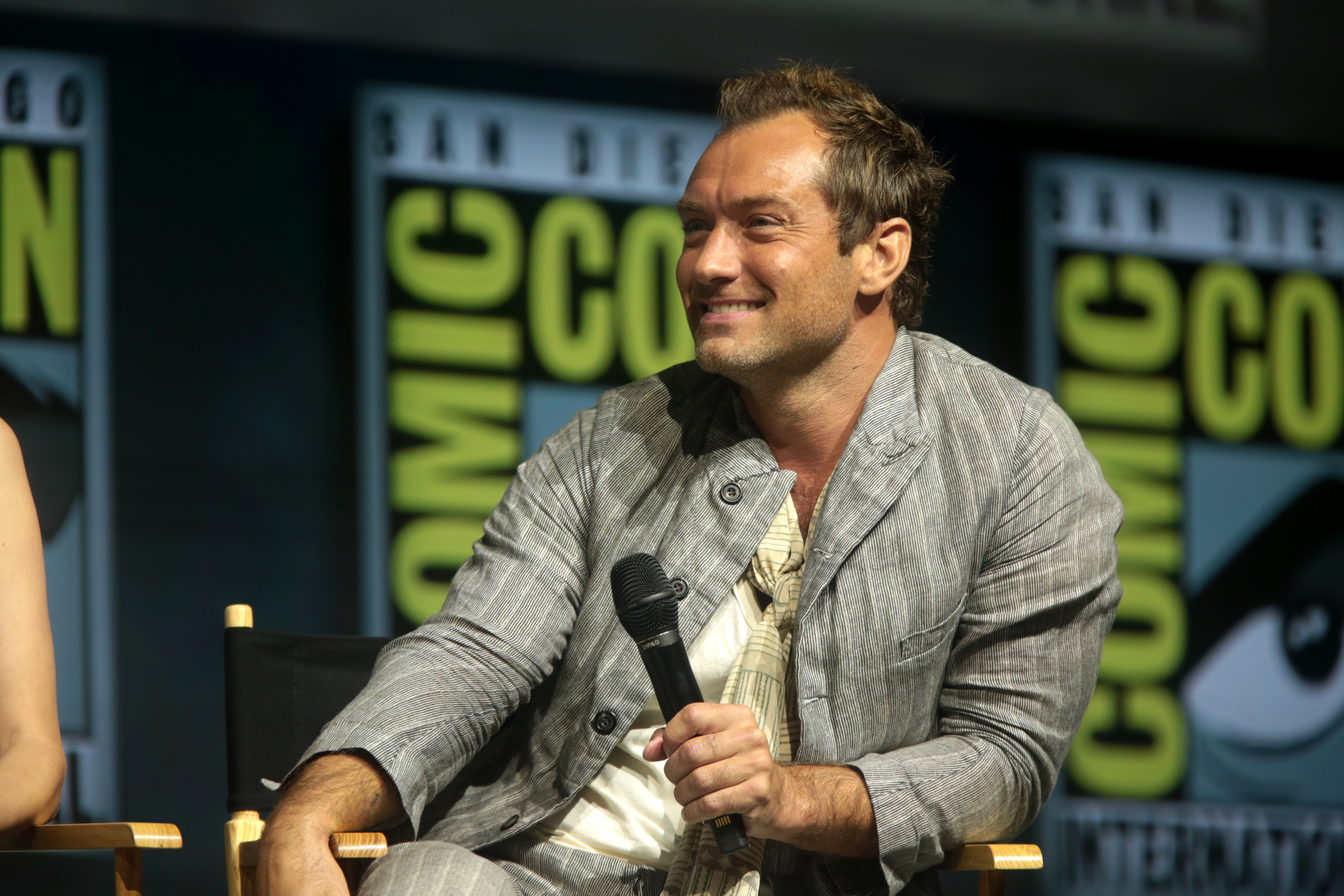 Jude Law speaking at the 2018 San Diego Comic Con International, for "Fantastic Beasts: The Crimes of Grindelwald", at the San Diego Convention Center in San Diego, California.